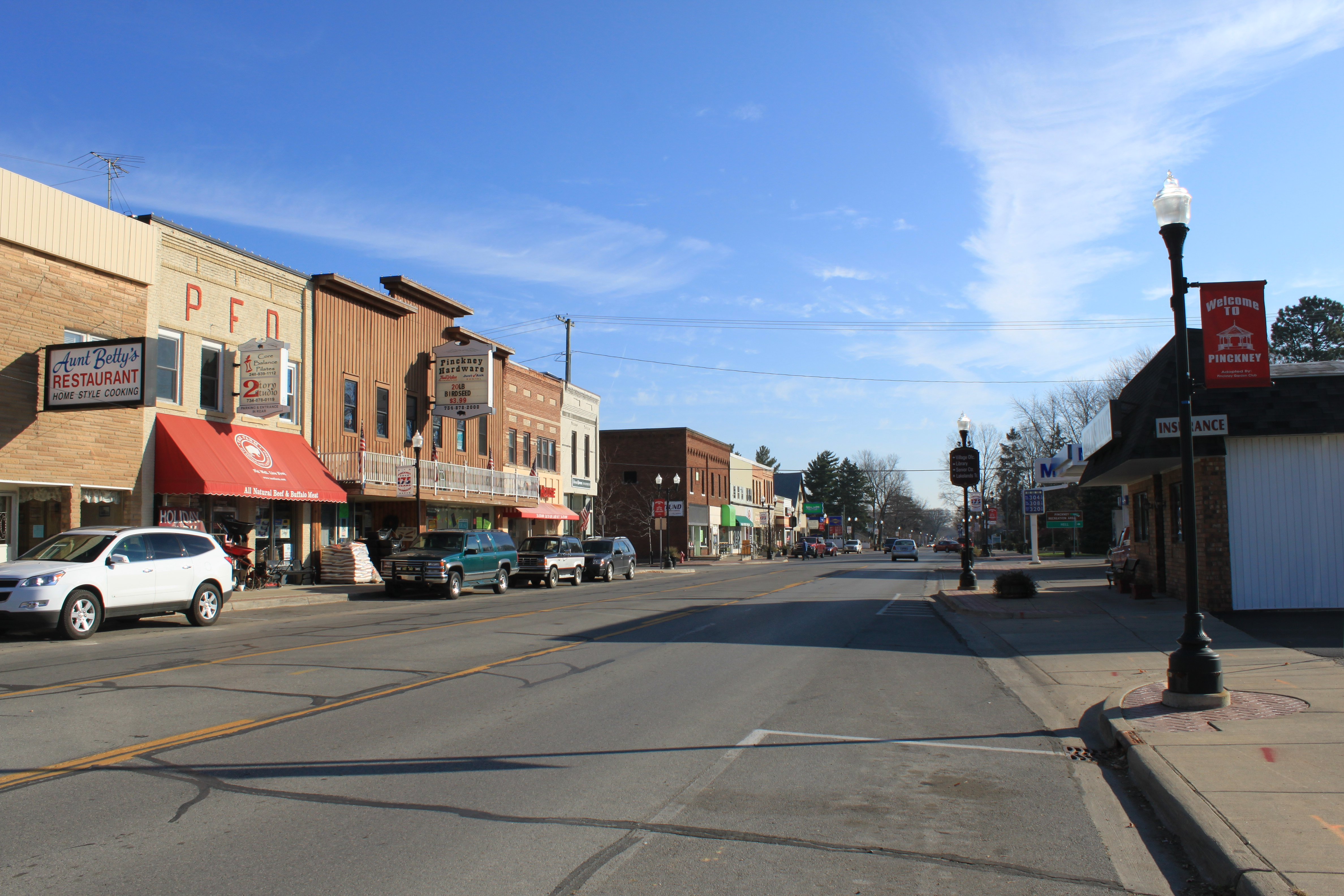 Downtown Pinckney Michigan, Main Street facing east, just west of intersection of South Howell Street.